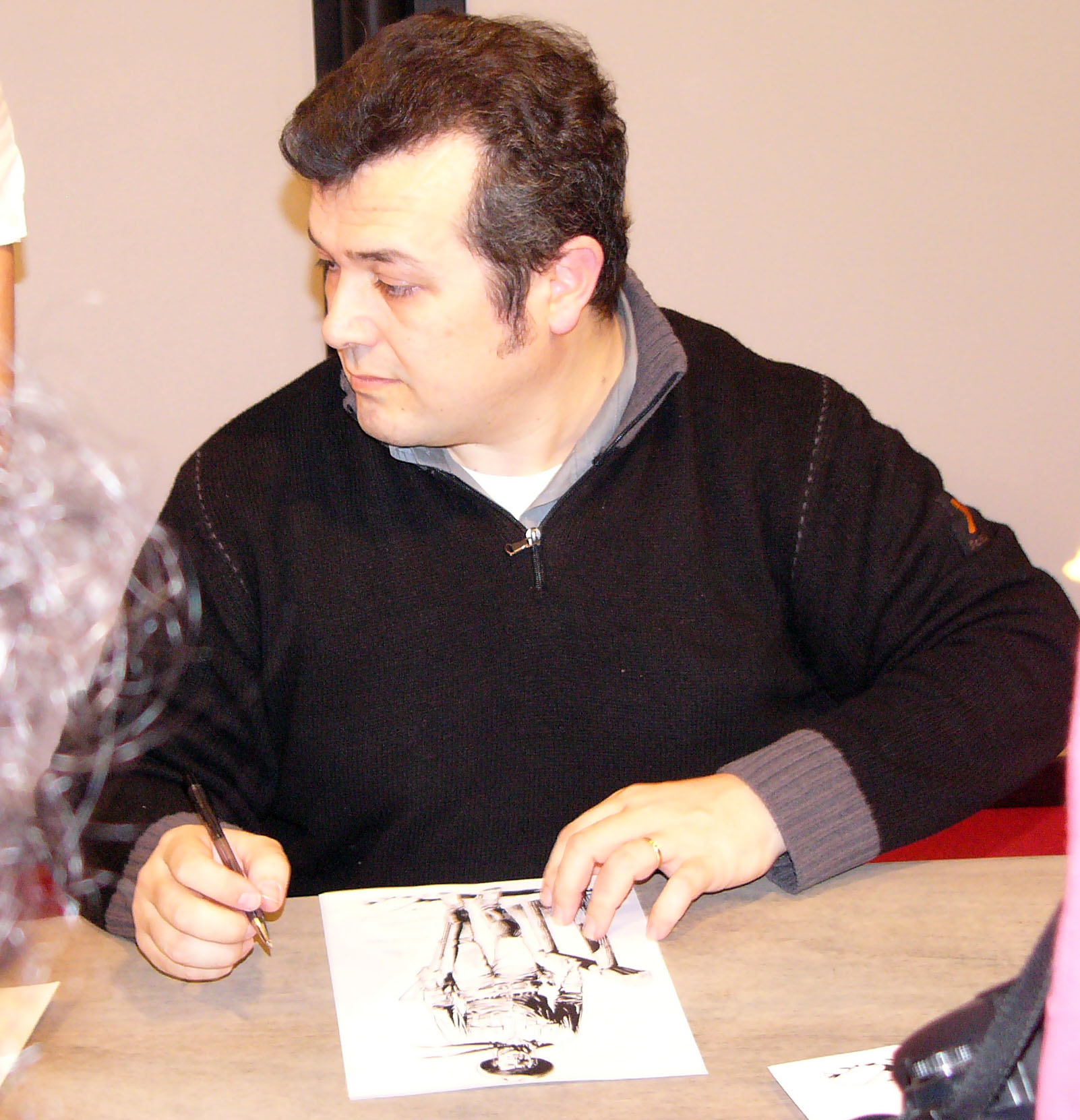 it: Claudio Villa, comic artist, sign autographs at Cartoomics, Milano 2007